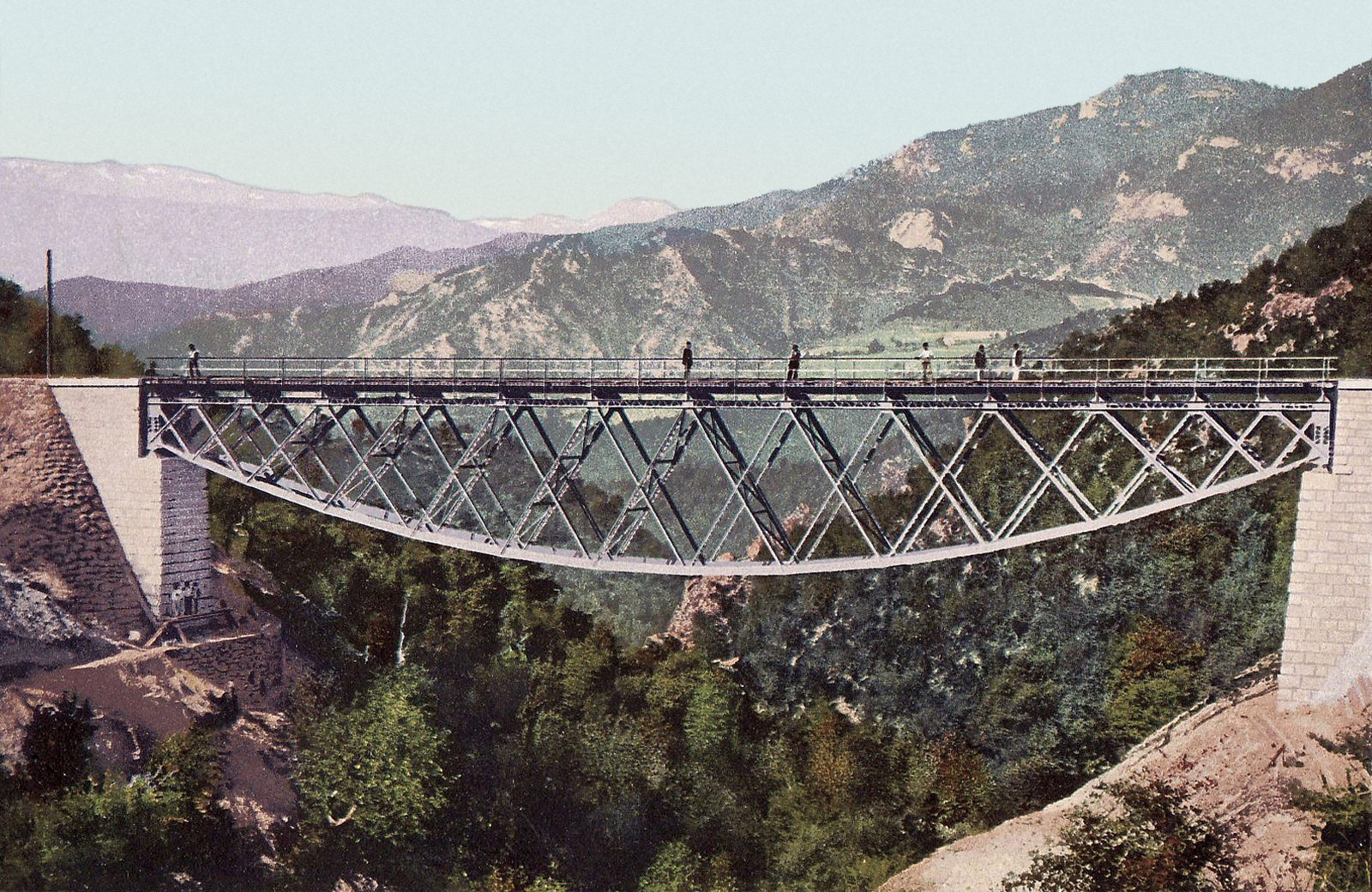 The narrow-gauge railway bridge over the Luka ravine on the rack section between Podorašac and Bradina